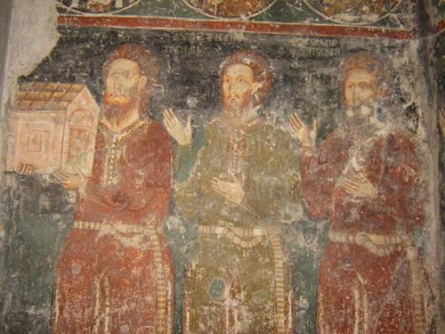 Dobrun Monastery ktitor fresco, with župan Pribil, and his sons župan Petar and župan Stefan.